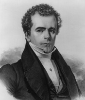 Former United States Representative from New York Ely Moore.